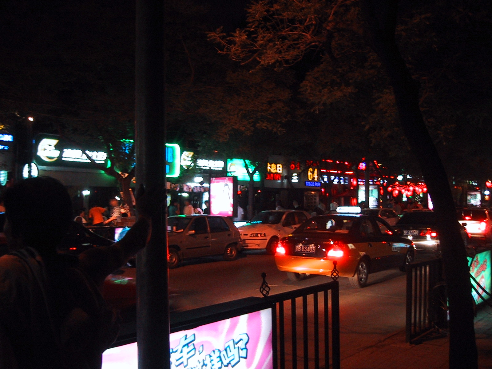 Sanlitun, a bar street in Beijing, China, at night in 2005